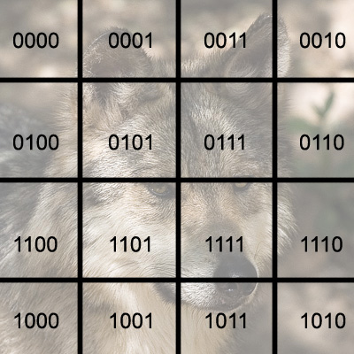 Image processing on a hypercube. Step 2.